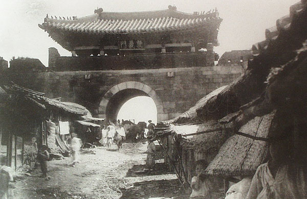 Front of Seodaemun, Seoul